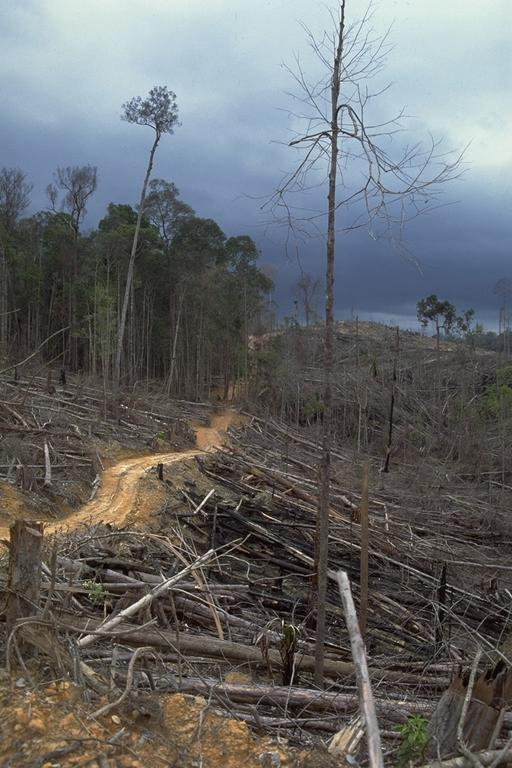 Deforestation and forest burning for oil palm plantation in the buffer zone of Bukit Tigapuluh National Park in Riau Province, Sumatra, Indonesia.